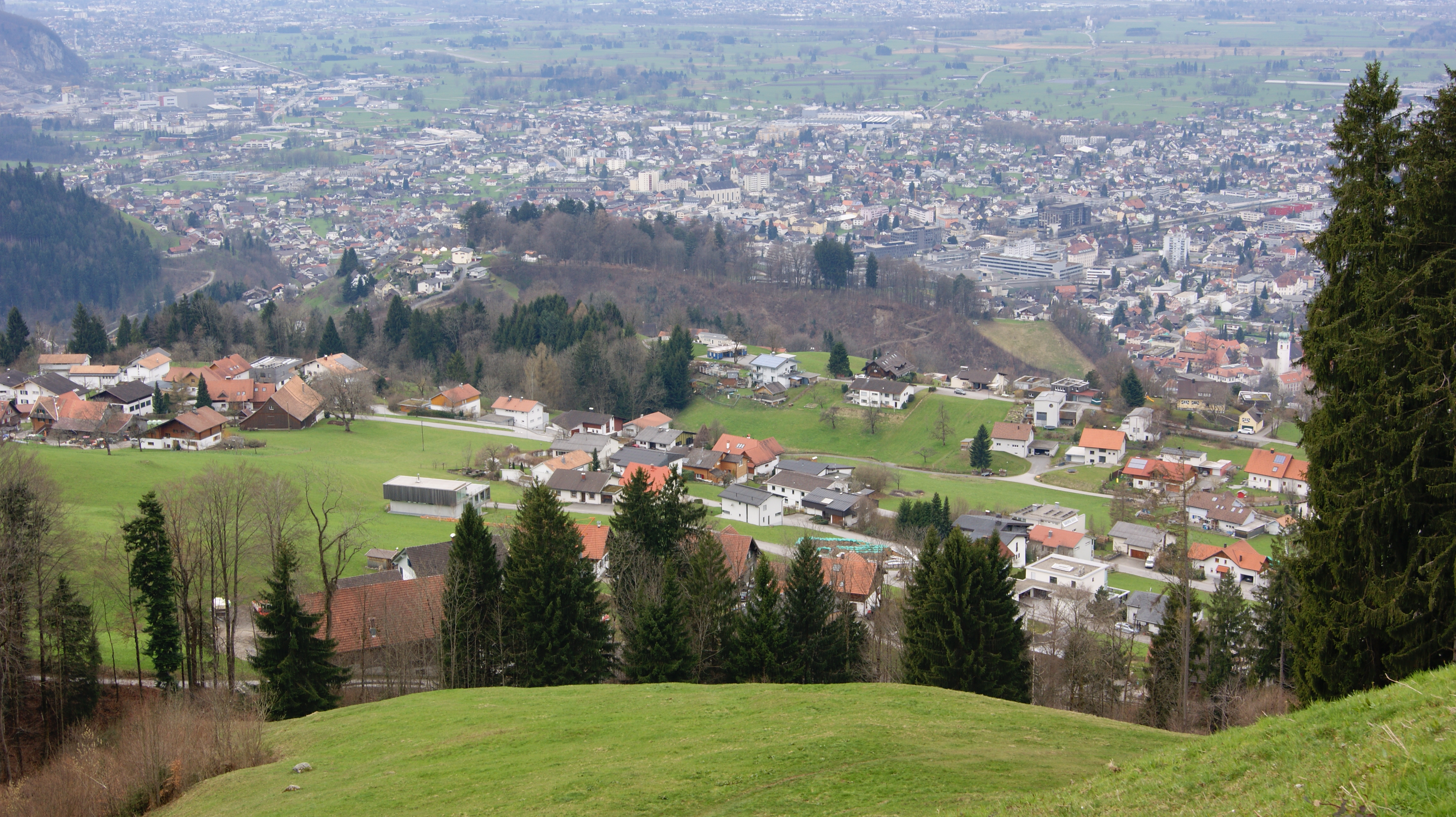 View from the Schwendealpe on Watzenegg-Palmern, Heilenberg, Zanzenberg and a part of Dornbirn